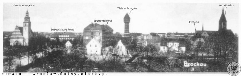 Historical panorama of Brochow - Wroclaw